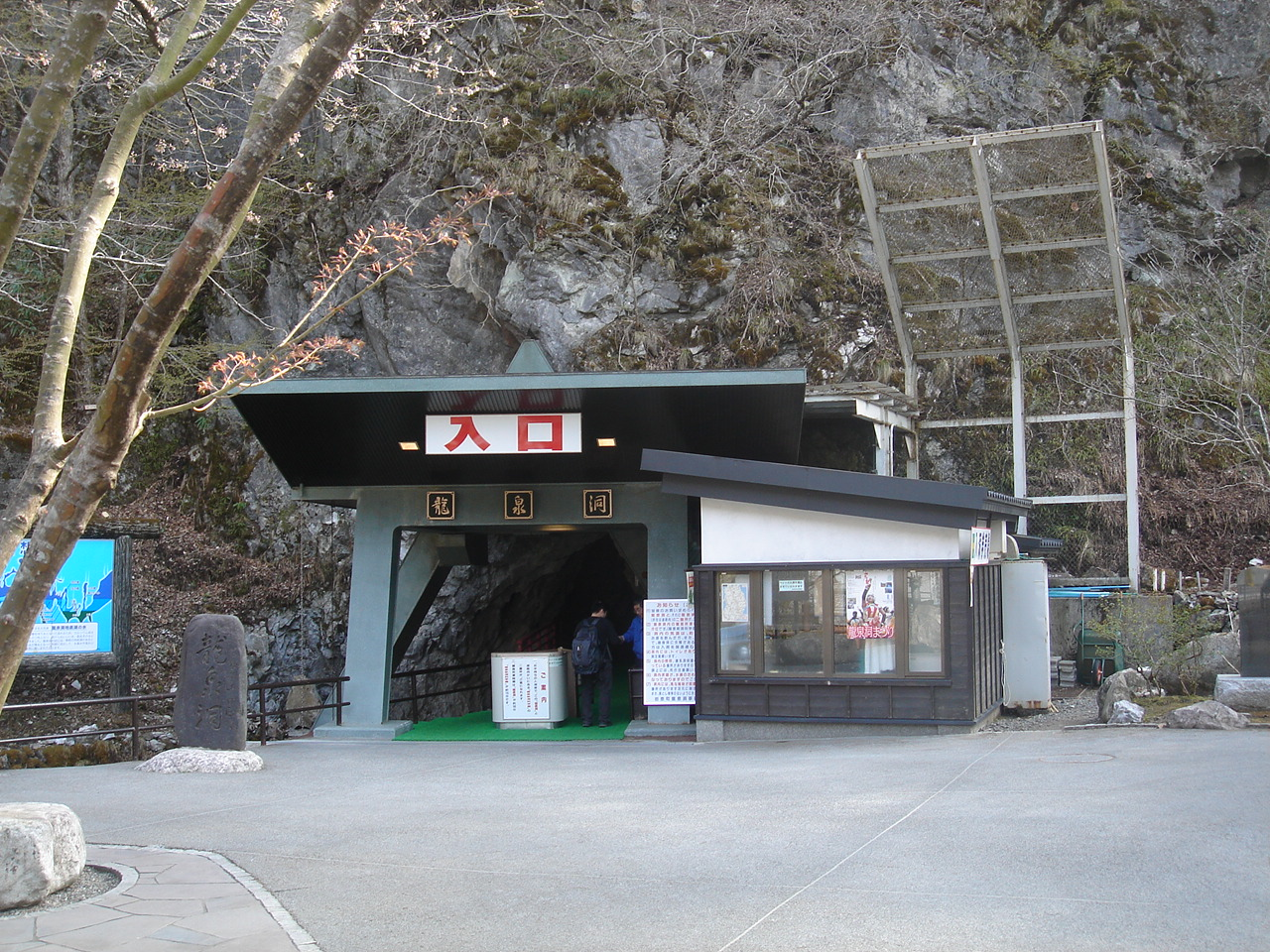 Entrance to Ryusendo cave